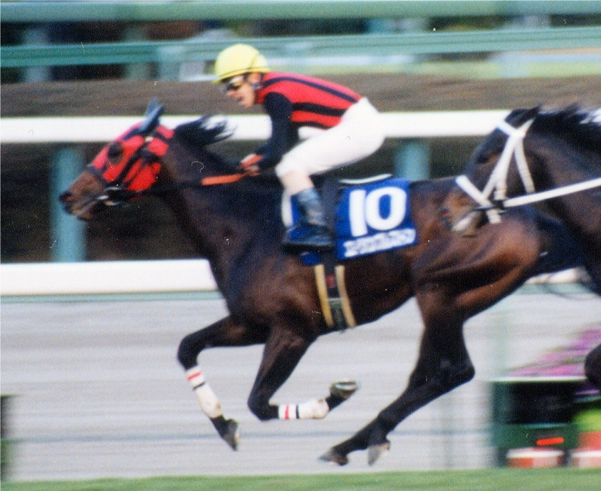 Eishin Preston (horse)